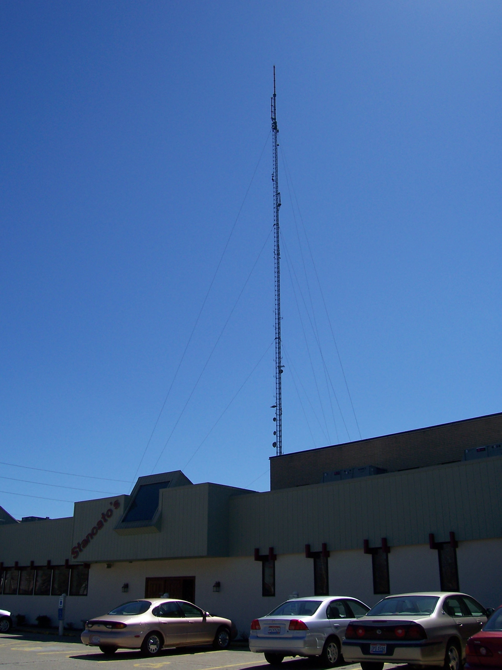 WJW's Transmittion Tower. Taken From The Parking Lot At Stancato's In Parma, Ohio